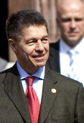 Joachim Sauer at the NATO summit meeting after a tour at Notre Dame Cathedral in Strasbourg, France.